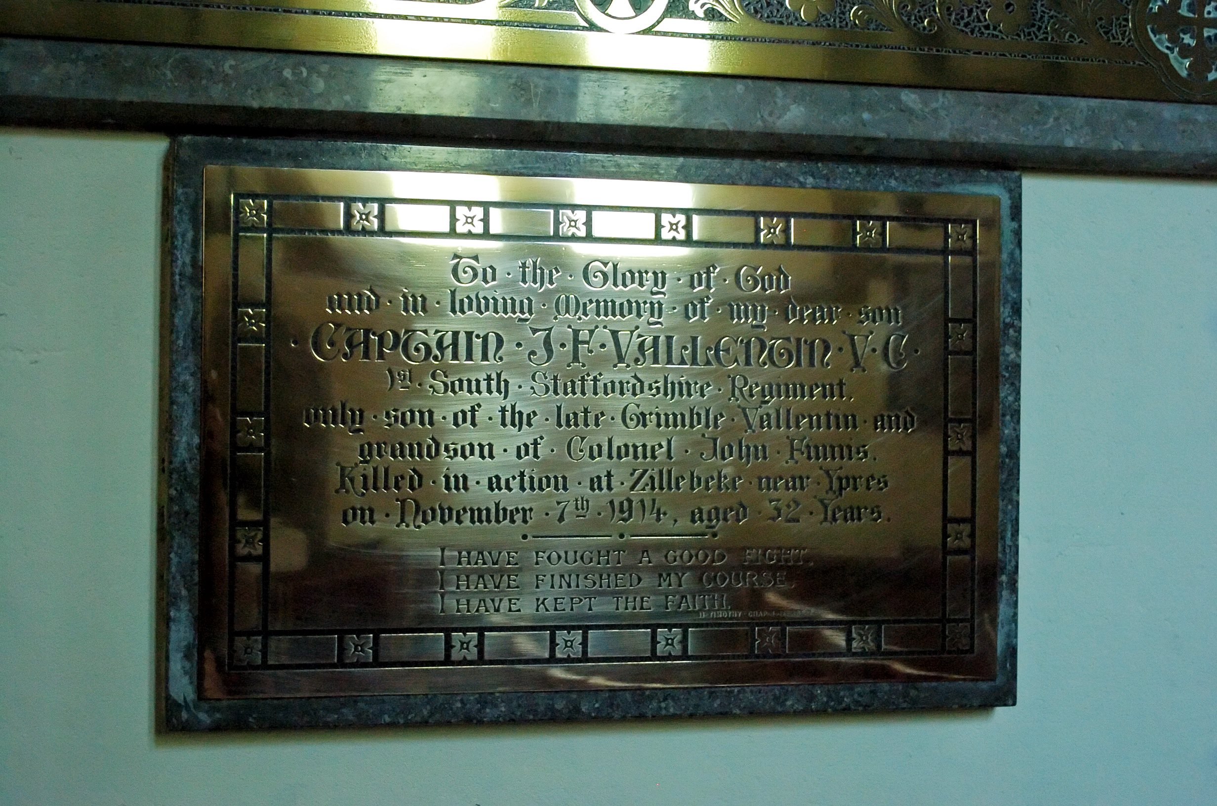 A plaque commemorating the Victoria Cross winner John Franks Vallentin in St Leonards Church in Hythe, Kent.